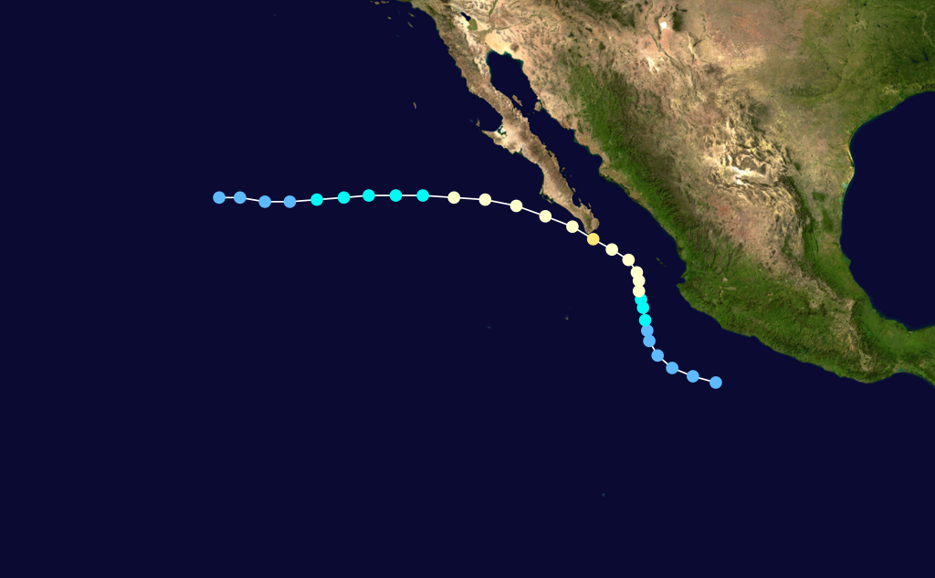 Hurricane Henriette (1995) track. Uses the color scheme from the Saffir-Simpson Hurricane Scale.